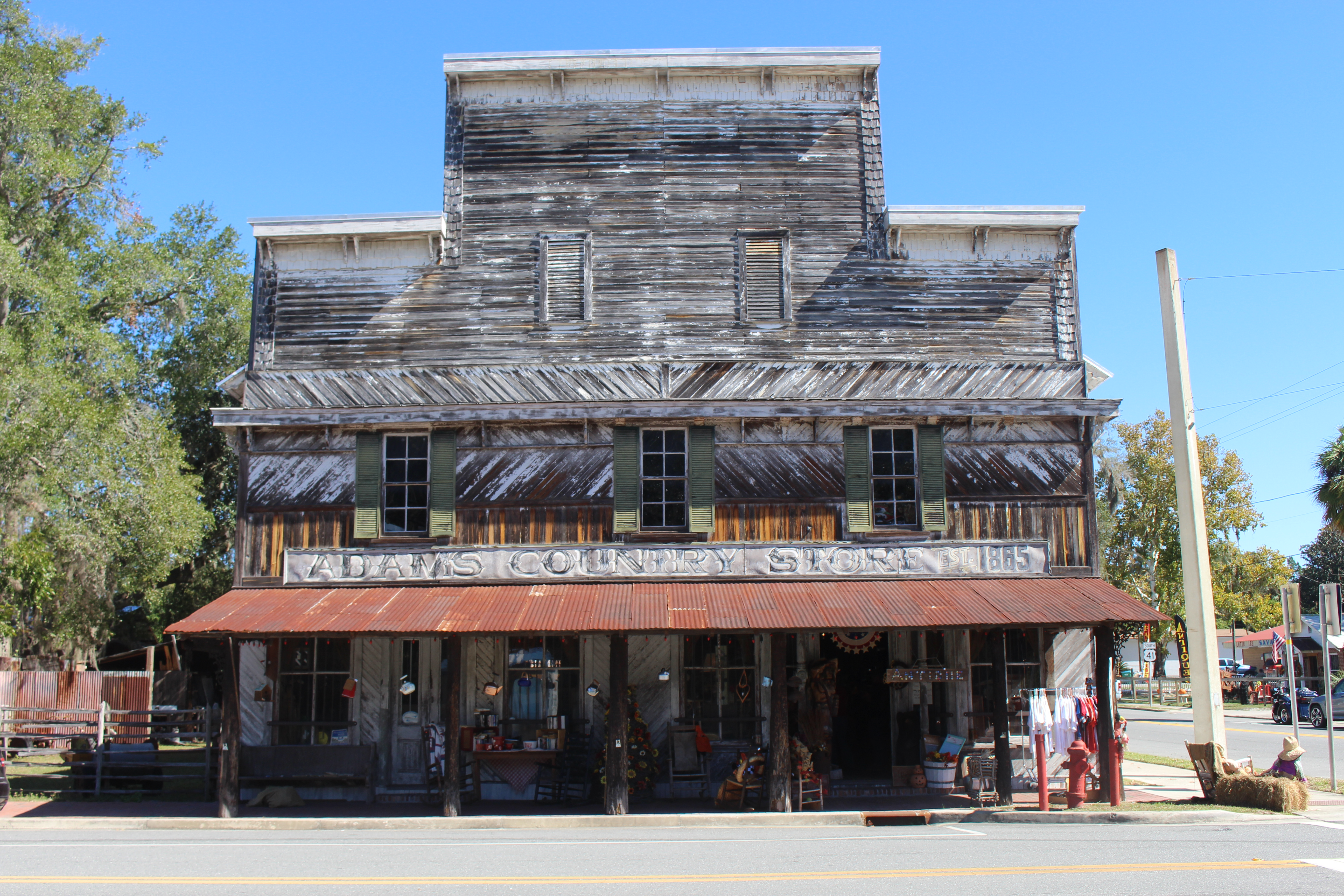 Adams Country Store, White Springs, Hamilton County, Florida